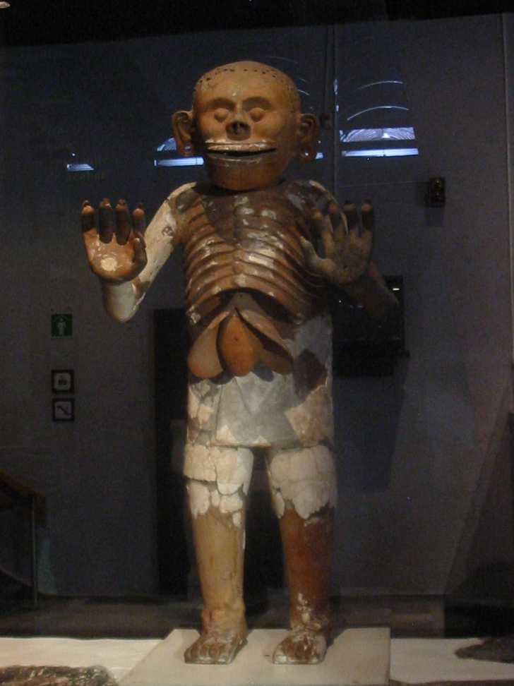 Statue of Mictlantecuhtli on display at the museum of the Templo Mayor in Mexico City.